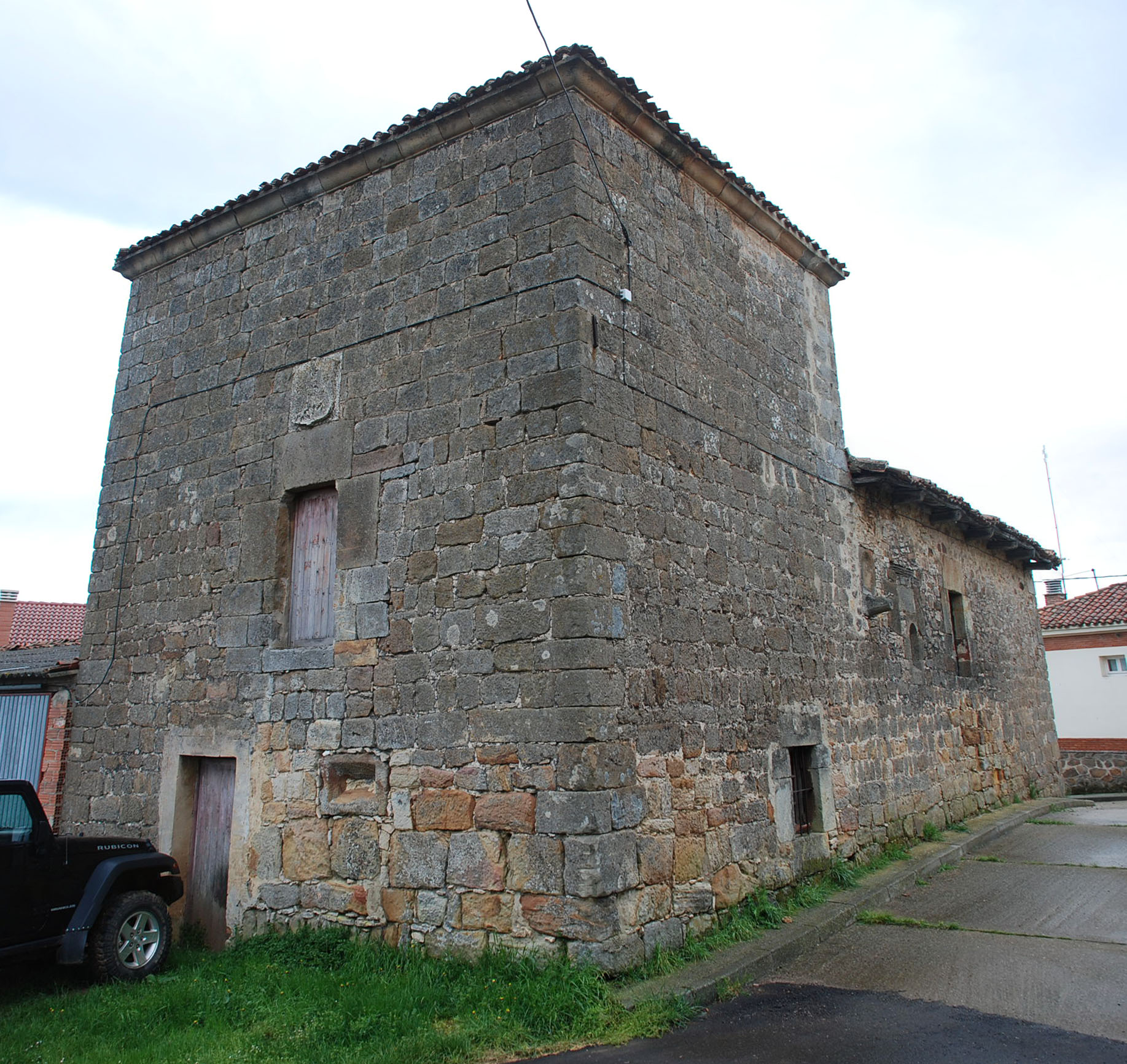 Tower house of Velarde in Cabria (Palencia, Castile and León).